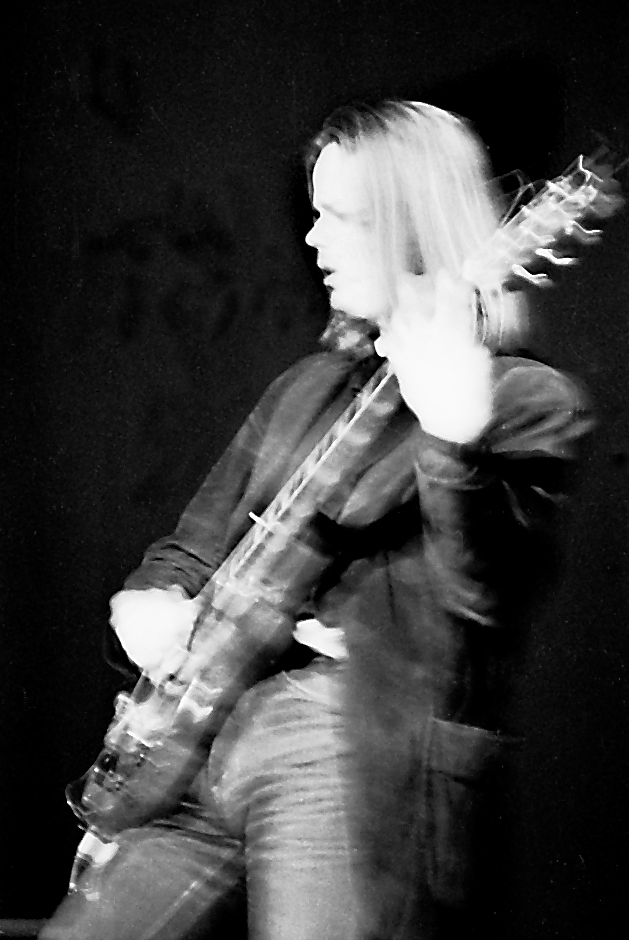 Pekka Rechardt Wigwam 1974